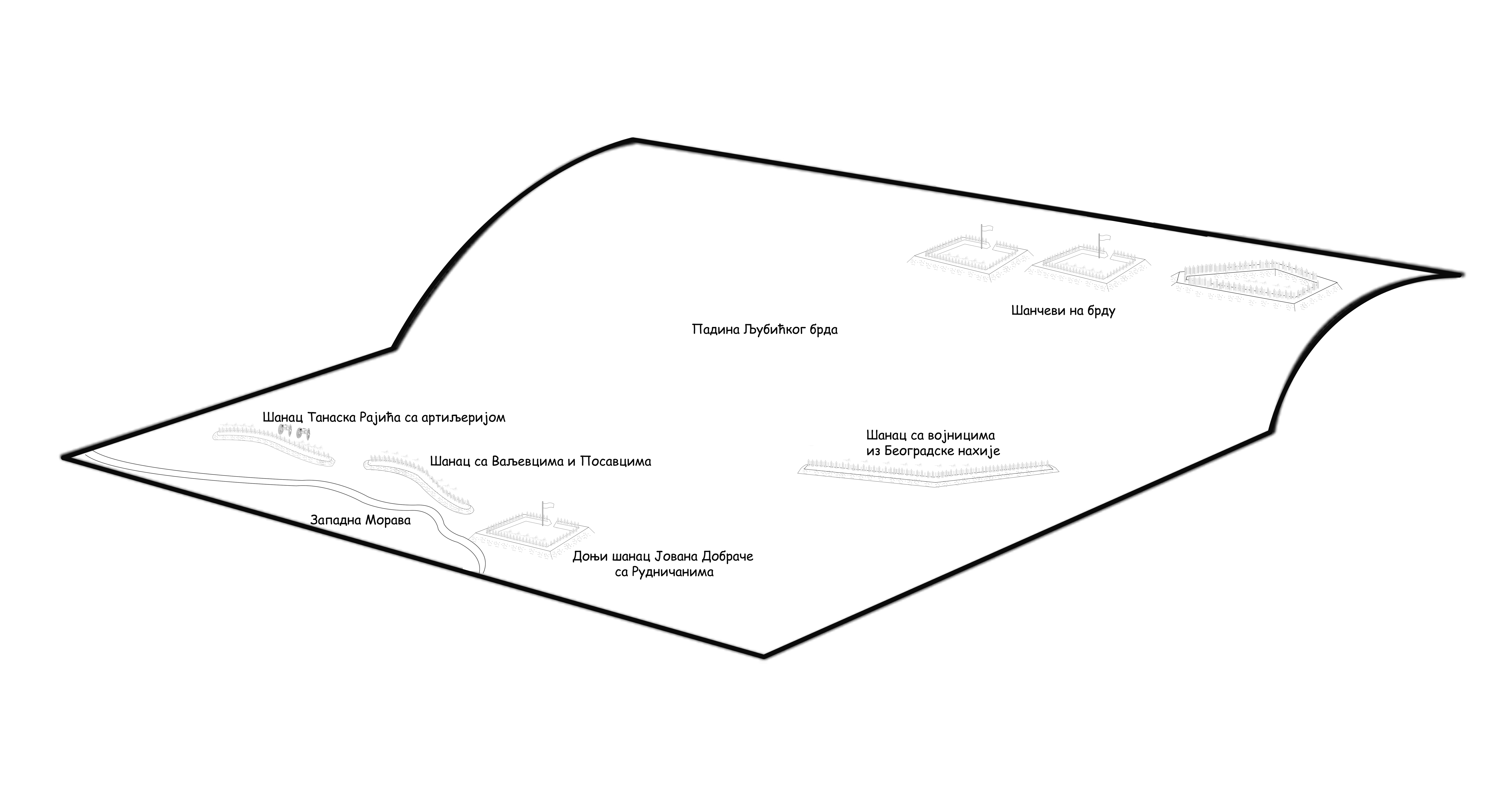 Battle of Ljubić in 1815 map of Serbian position on Ljubić hill and near bank of Morava river